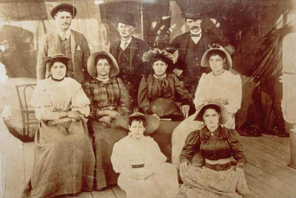 Photo of the family of Carlo Bertoleoni (self-proclaimed "King of Tavolara", a tiny island in Sardinia), ca. 1890. The Bertoleonis were the only inhabitants of the island (and "kingdom"), where they sustained themselves by farming goats and fishing. Individuals in the photo are: Efisio Molinas, Carlo Bertoleoni, Augusto Molinas, Nina Molinas, Maria Molinas, Ninna Murru, Laura Molinas, Alesandra (Lisandra) Pucinella, and Pasqualina (Giovanetta) Puccetti.[1][2]